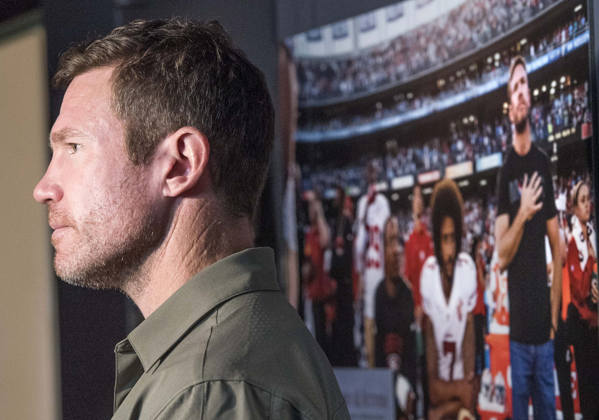 On Tuesday, September 18, 2018, the LBJ Presidential Library partnered with the University of Texas at Austin's Center for Sports Leadership & Innovation and UT’s Center for Sports Communication & Media for an evening of conversation about equality in sports. The event featured U.S. Olympic female fencer Ibtihaj Muhammad, a bronze medal winner; Nate Boyer, a former UT football player, Green Beret, and NFL player; and Daron K. Roberts, founding director of the Center for Sports Leadership & Innovation. The event was tied to the LBJ Library’s special exhibition, Get in the Game: The Fight for Equality in American Sports, on view through Sunday, Jan. 13, 2019. The conversation was moderated by Mark K. Updegrove, president, and CEO of the LBJ Foundation.